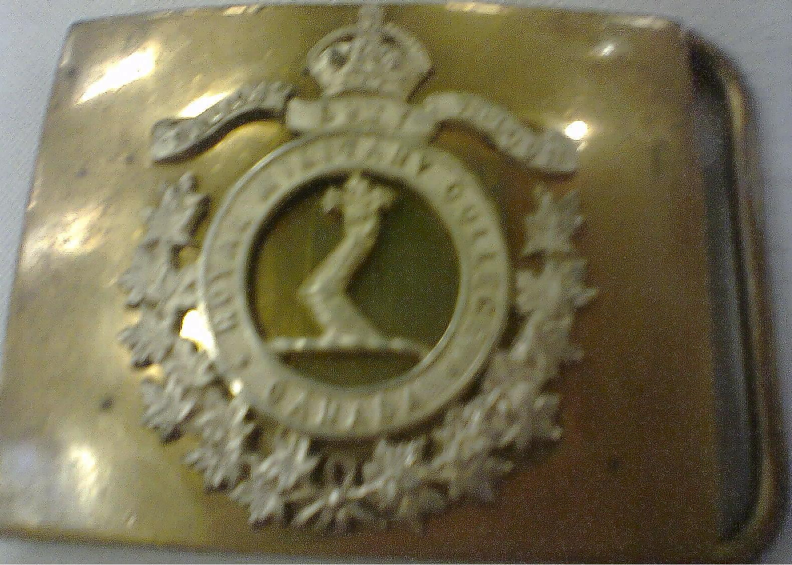 Pre 1914 Royal Military College of Canada belt buckle; badge is removable and can be used as a pin